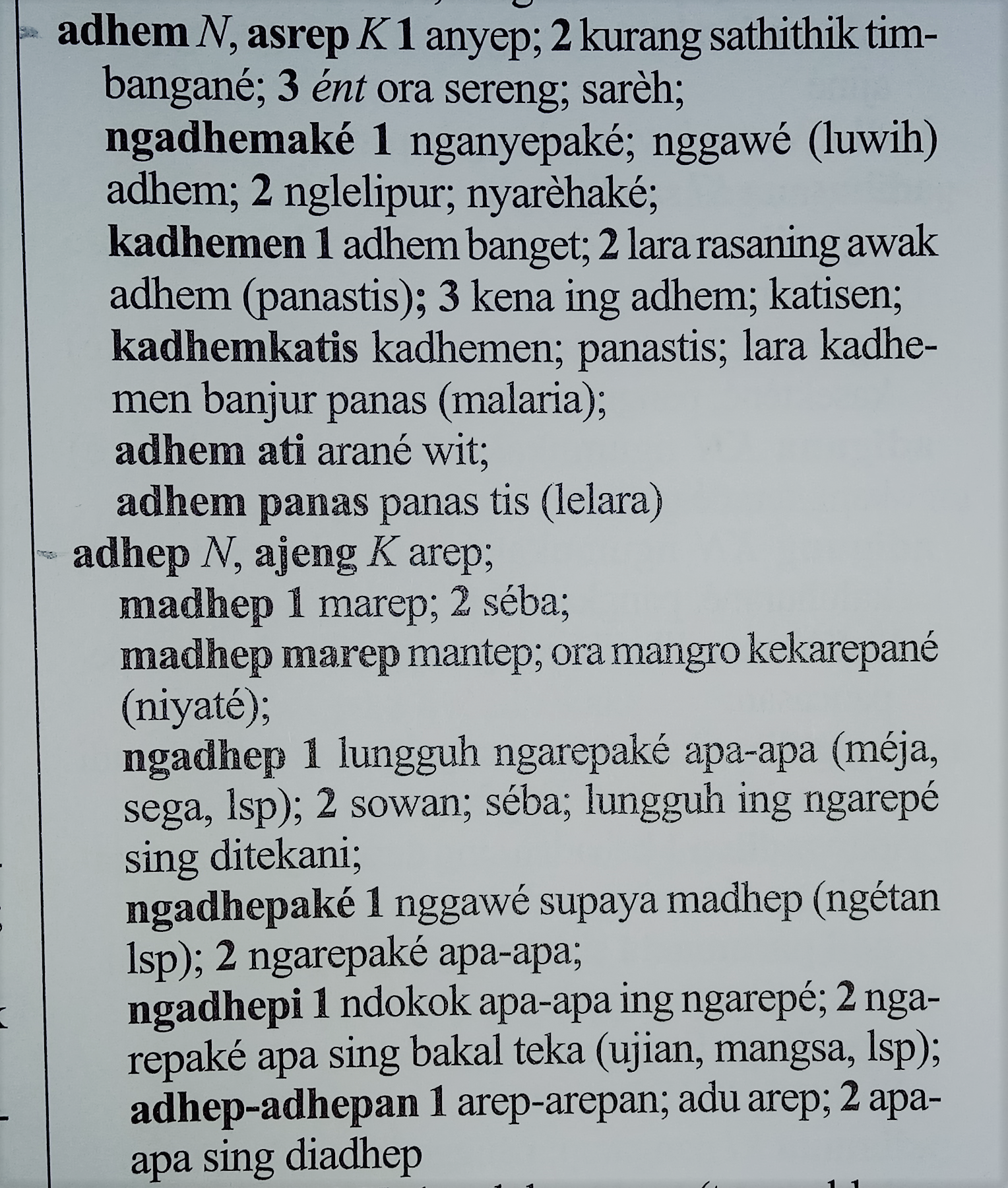 Ngoko lemmas (marked with N) with krama equivalents (marked with K) in Kamus Basa Jawa (Bausastra Jawa)